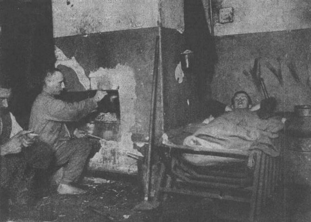 Red Guard prisoners of the 1918 Finnish Civil War in the island of Isosaari, Helsinki.